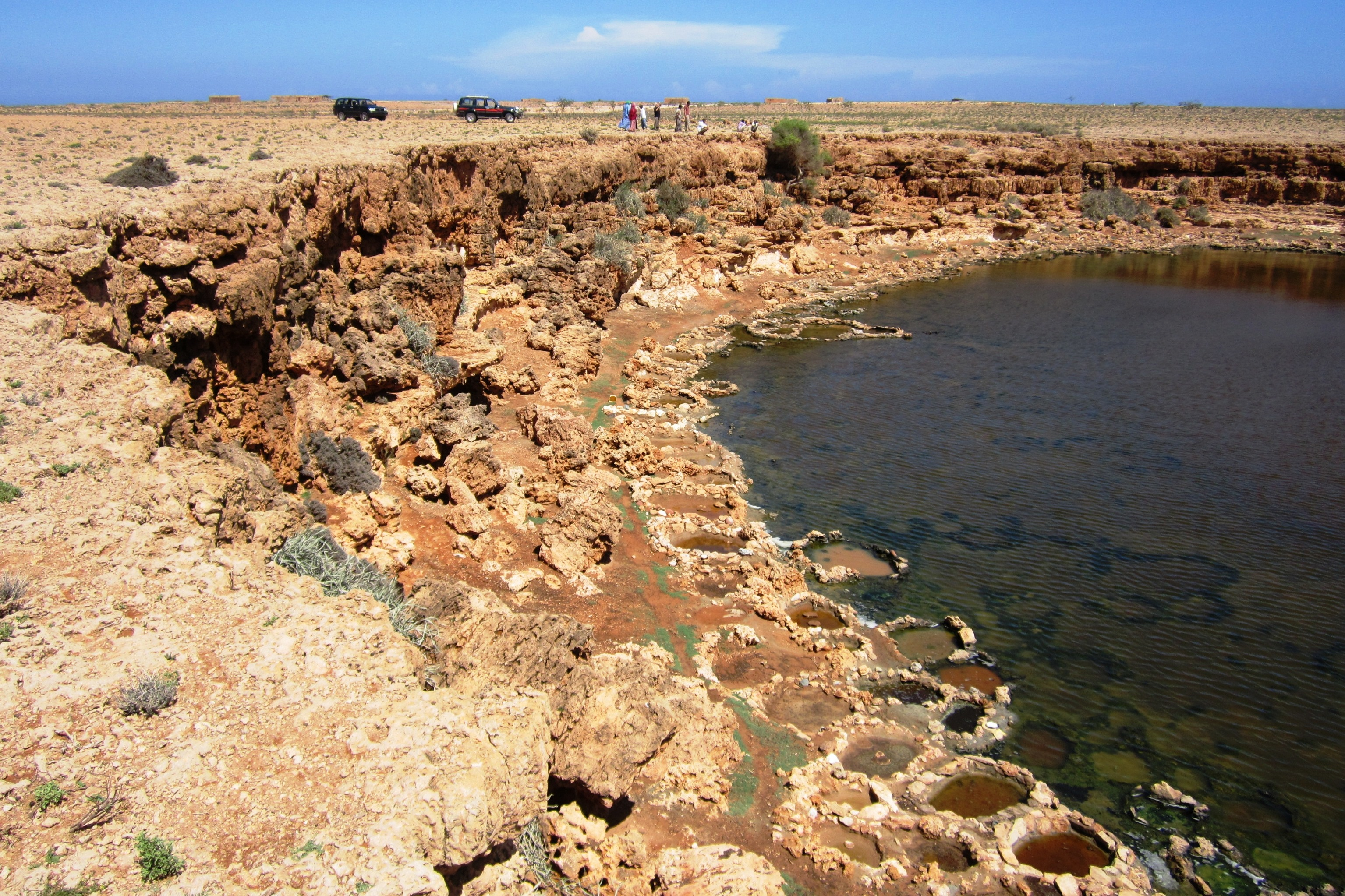 pits island salt yemen socotra soqotra